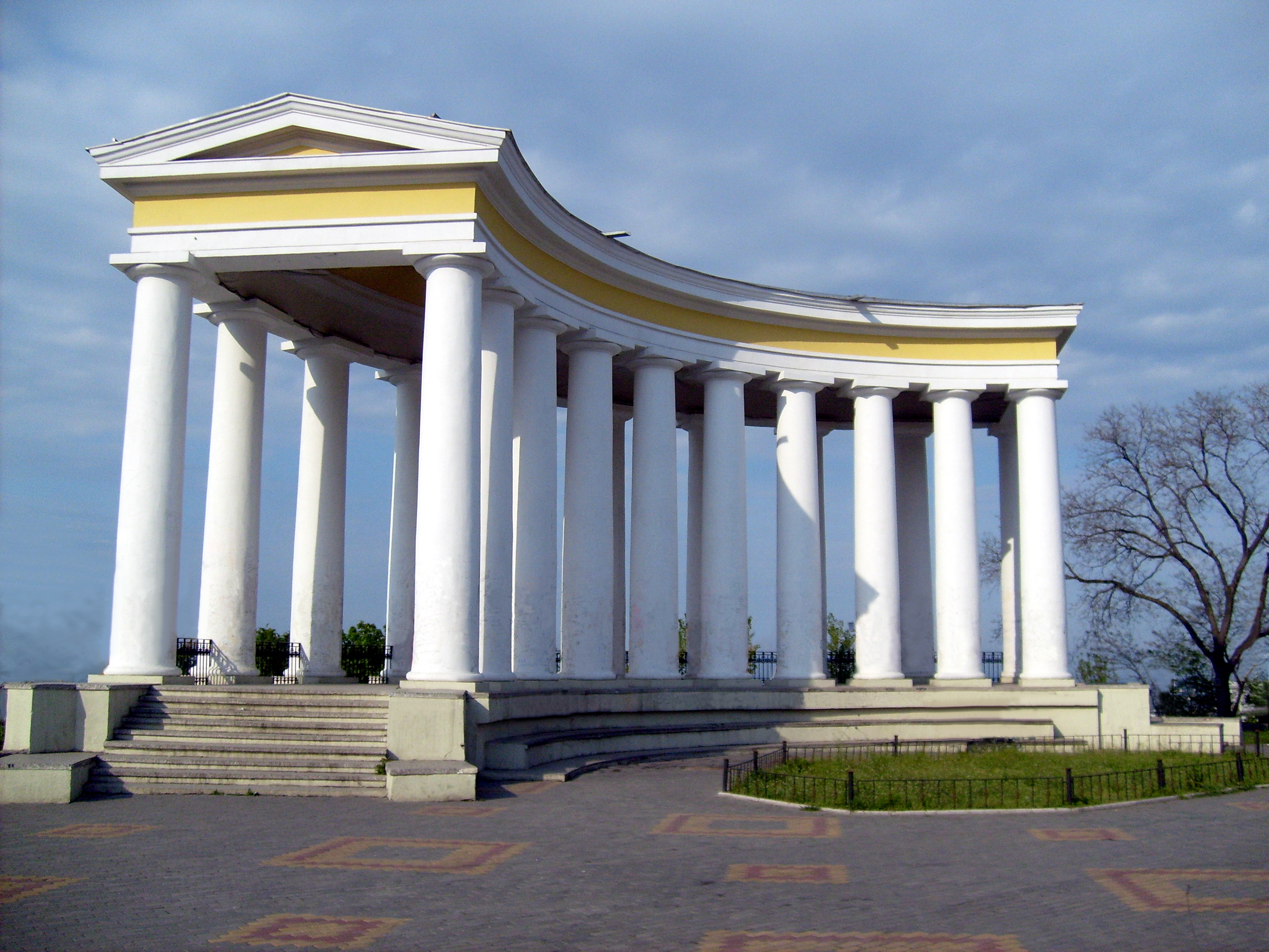 Collonade of the Vorontsov's Palace in Odessa. Graffiti and some other modern details removed.